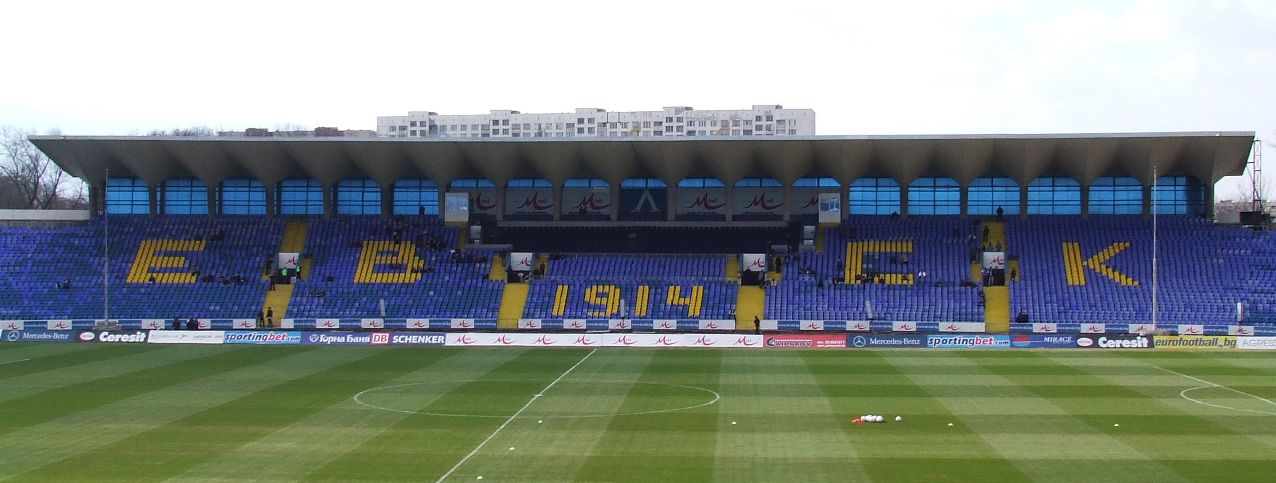 PFC Levski Sofia's Georgi Aspauhov Stadium in Sofia, Bulgaria